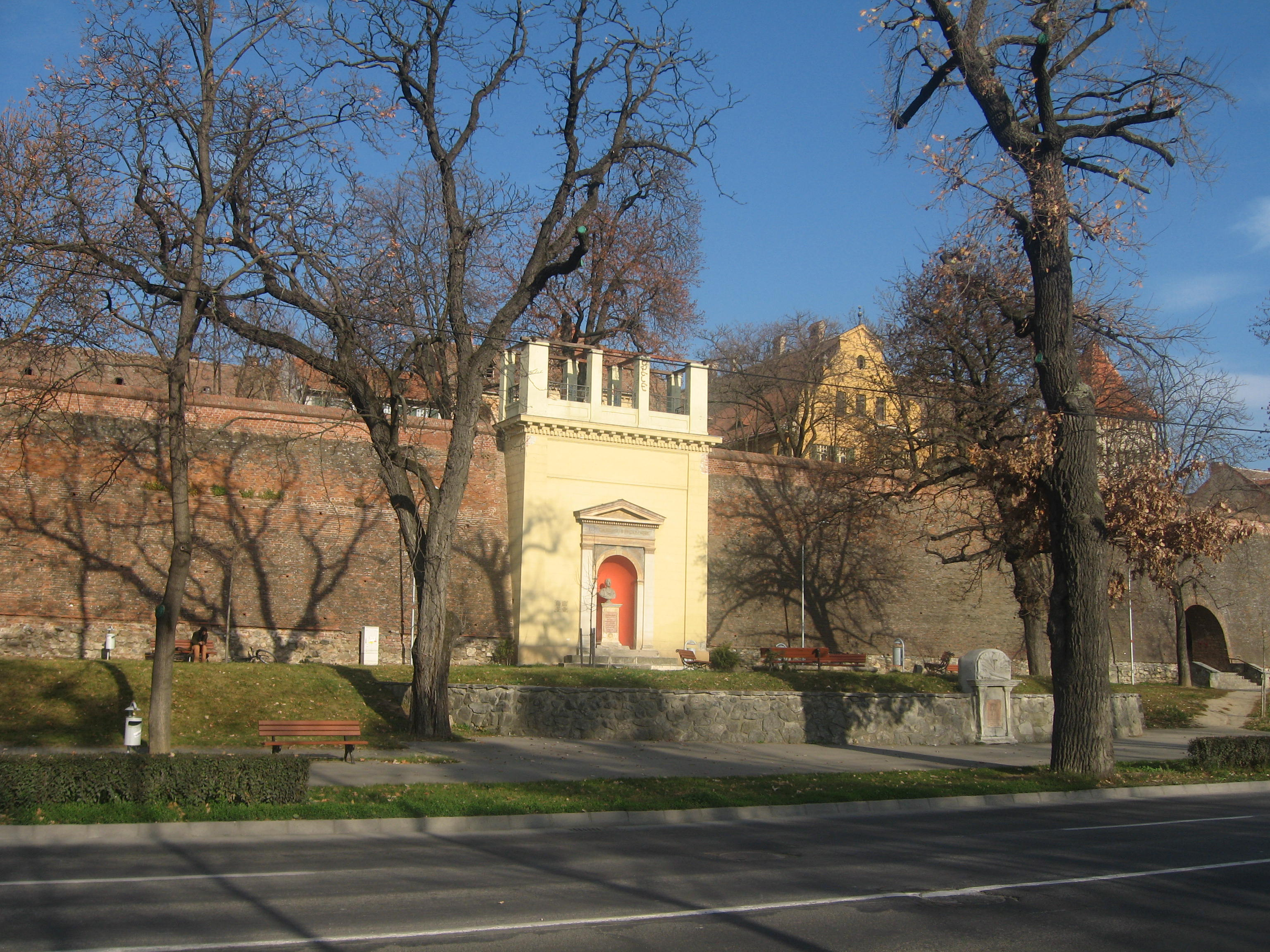 Emperor Francisc's statue in Sibiu